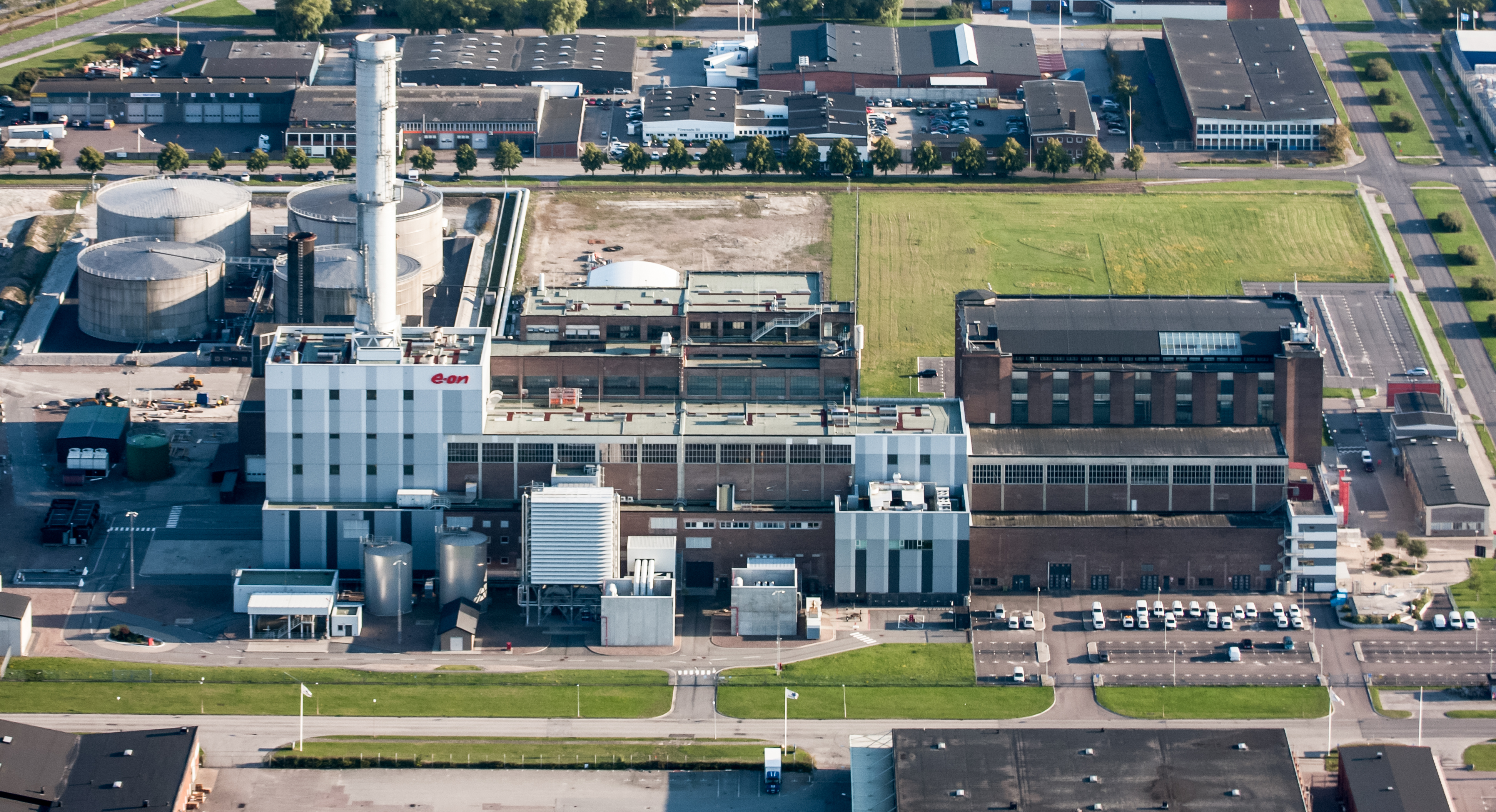 Öresundsverket, combined cycle power plant in Malmö, Sweden.